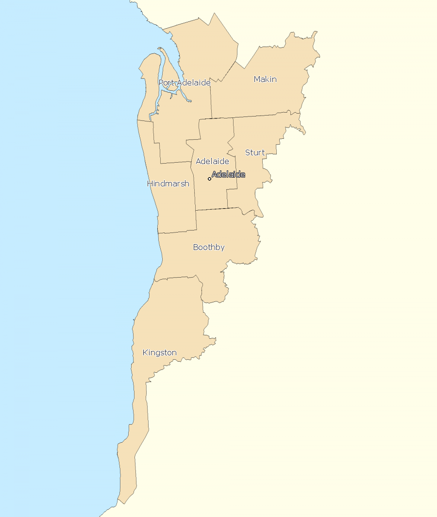 Incorporates or developed using Administrative Boundaries ©PSMA Australia Limited licensed by the Commonwealth of Australia under Creative Commons Attribution 4.0 International licence (CC BY 4.0). Derived from State and Territory Boundaries from the Australian Bureau of Statistics under Creative Commons Attribution 2.5 Australia license (CC BY 2.5 AU)